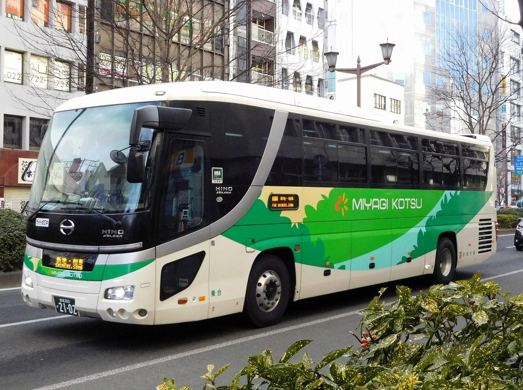 Miyagi Kotsu Hino S'elega (PKG-RU1ESAA)highwaybus "Sendai-Soma"